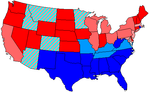 Summary of party control of U.S. house seats in the 83rd United States Congress following election. Stripes indicate a tie between two or more parties. Legend: 80.1-100% Democratic seat majority 60.1-80% Democratic seat majority 60% or less Democratic seat plurality 60% or less Republican seat plurality 60.1-80% Republican seat majority 80.1-100% Republican seat majority